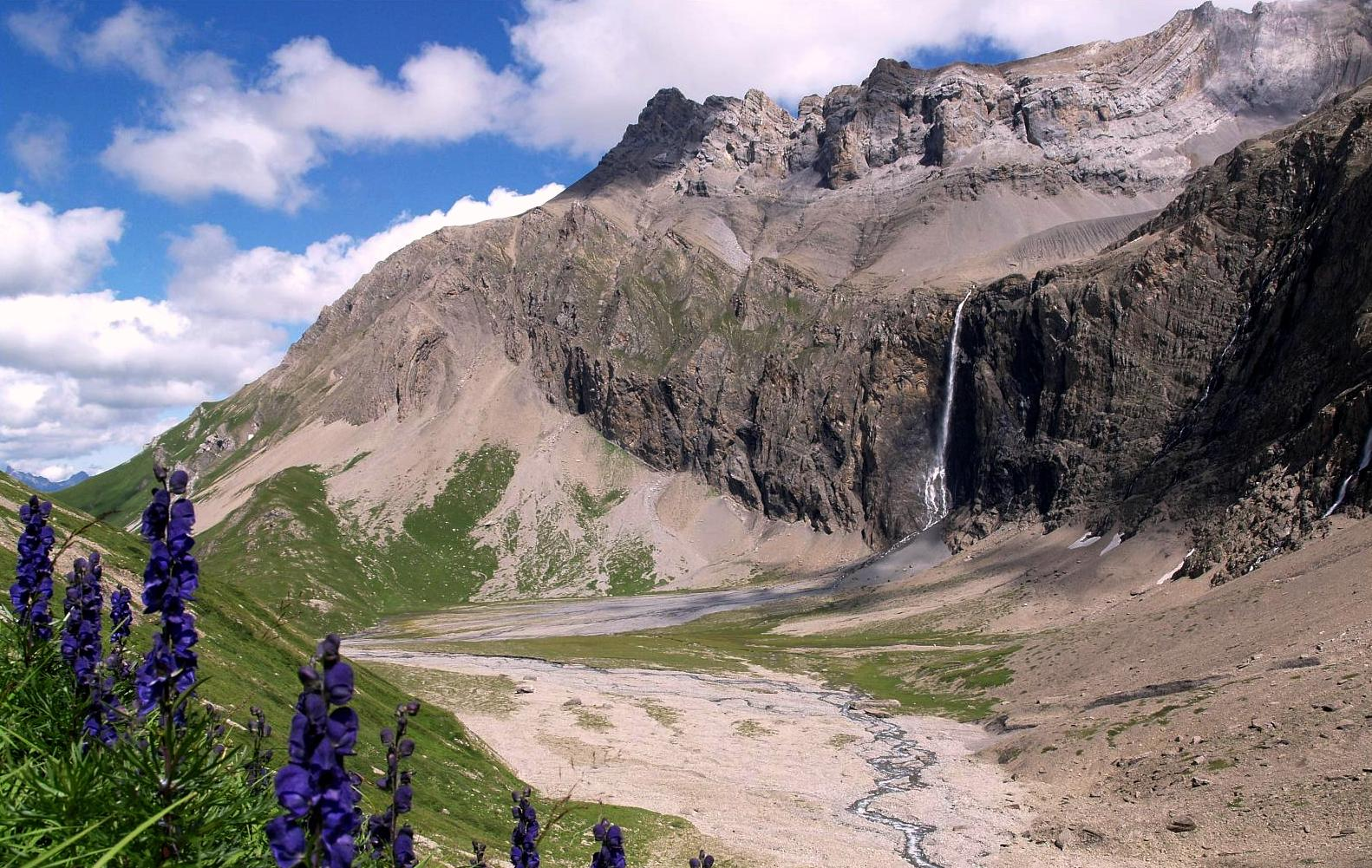 Rottal valley, north of Wildhorn, Berner Oberland